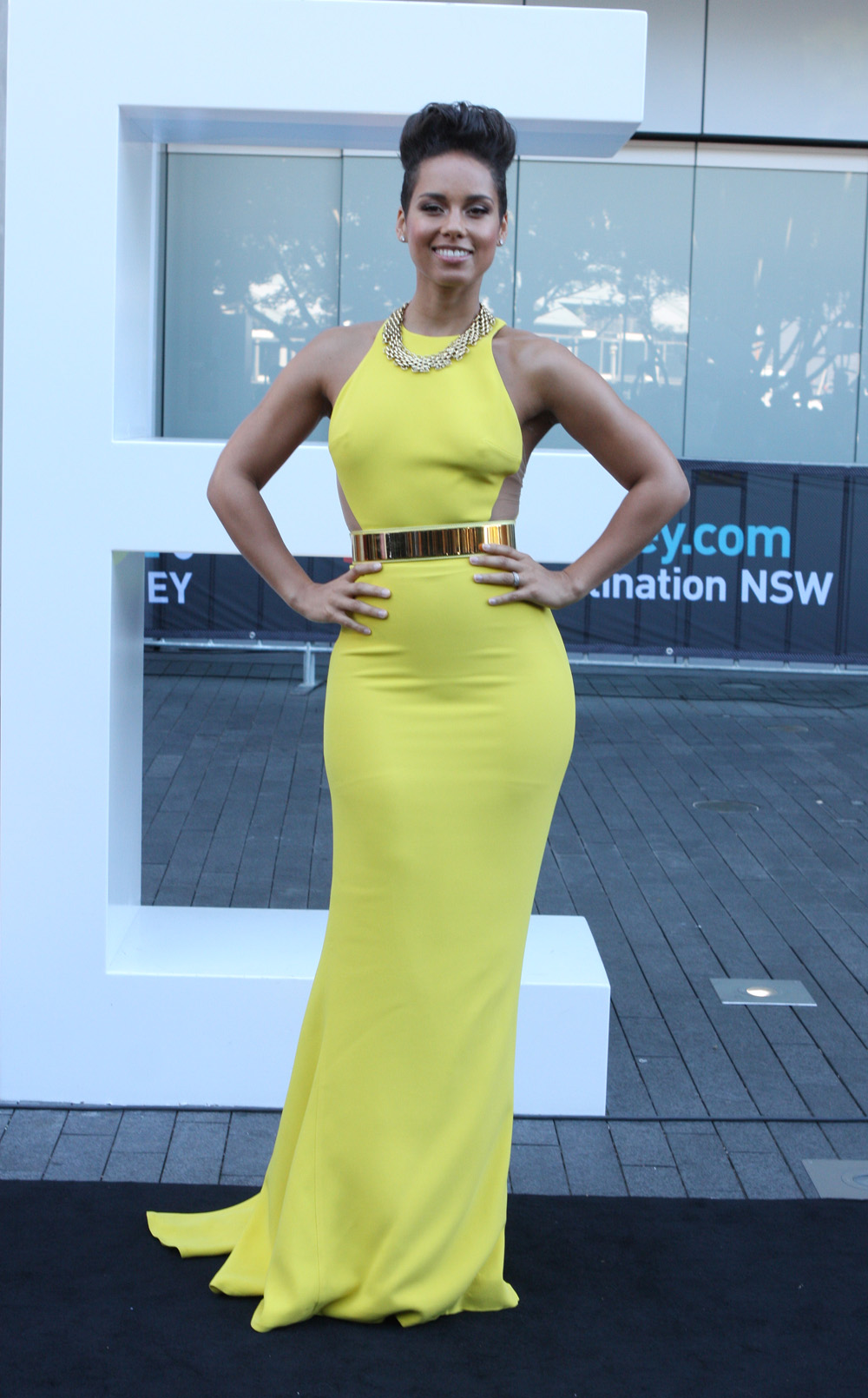 Aria Awards 2013 in Sydney Australia